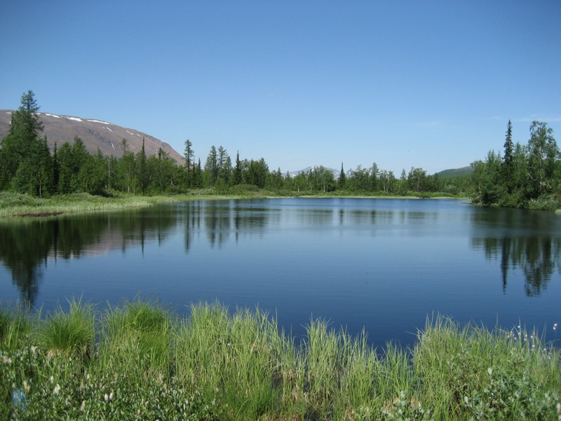 River Sob north of Kharp on the road through the Polar Urals (Russia).